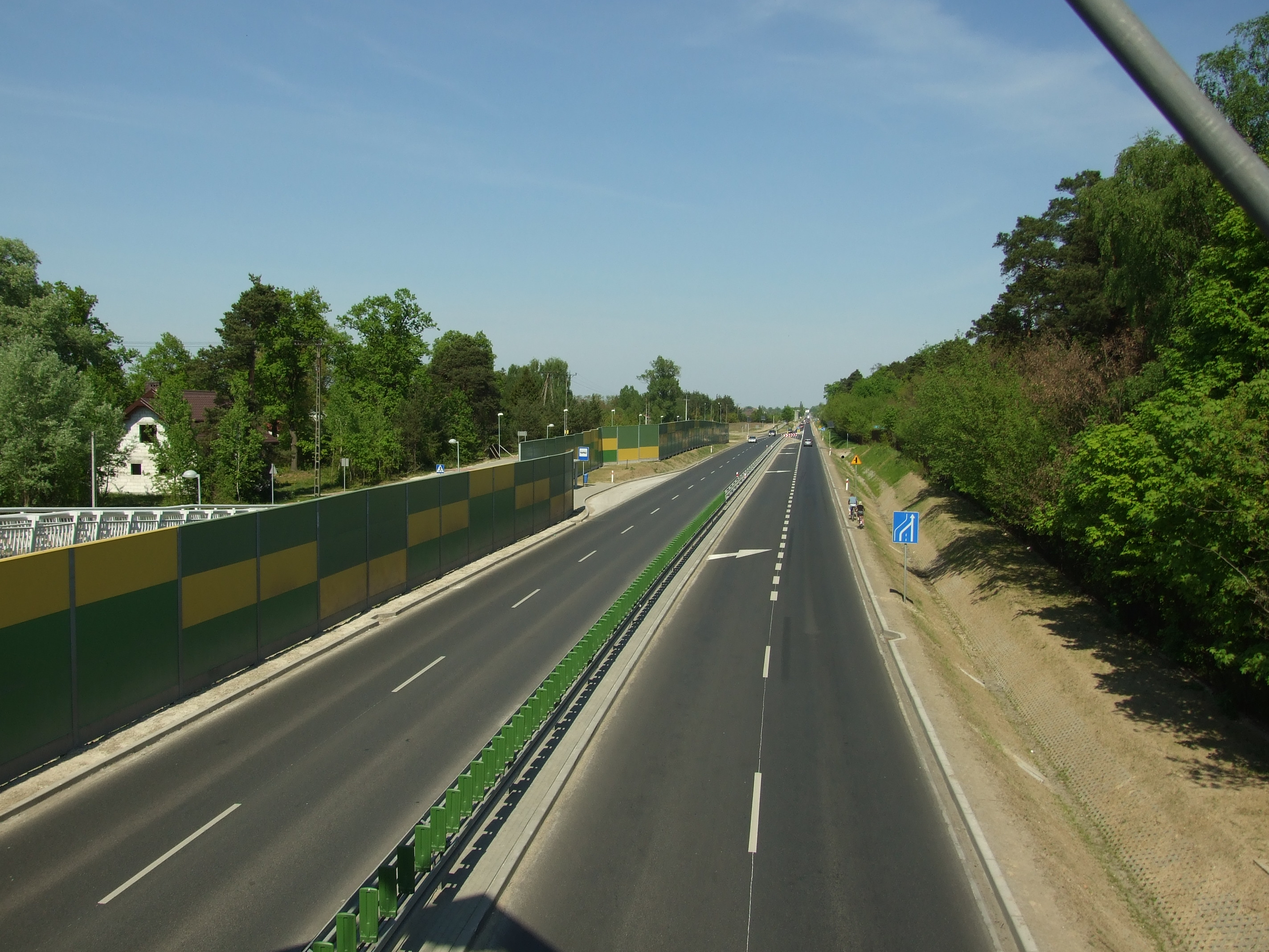 Road from Legionowo to Serock, Mazowskie, PLhelp